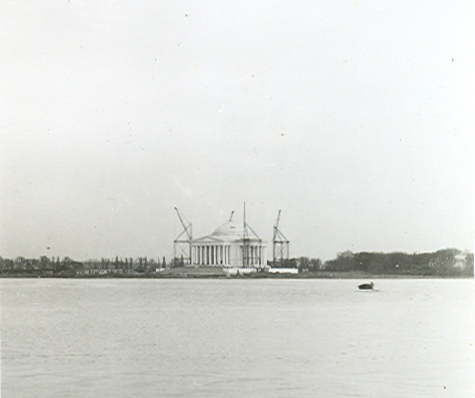 Jefferson Memorial (Washington, DC), under construction